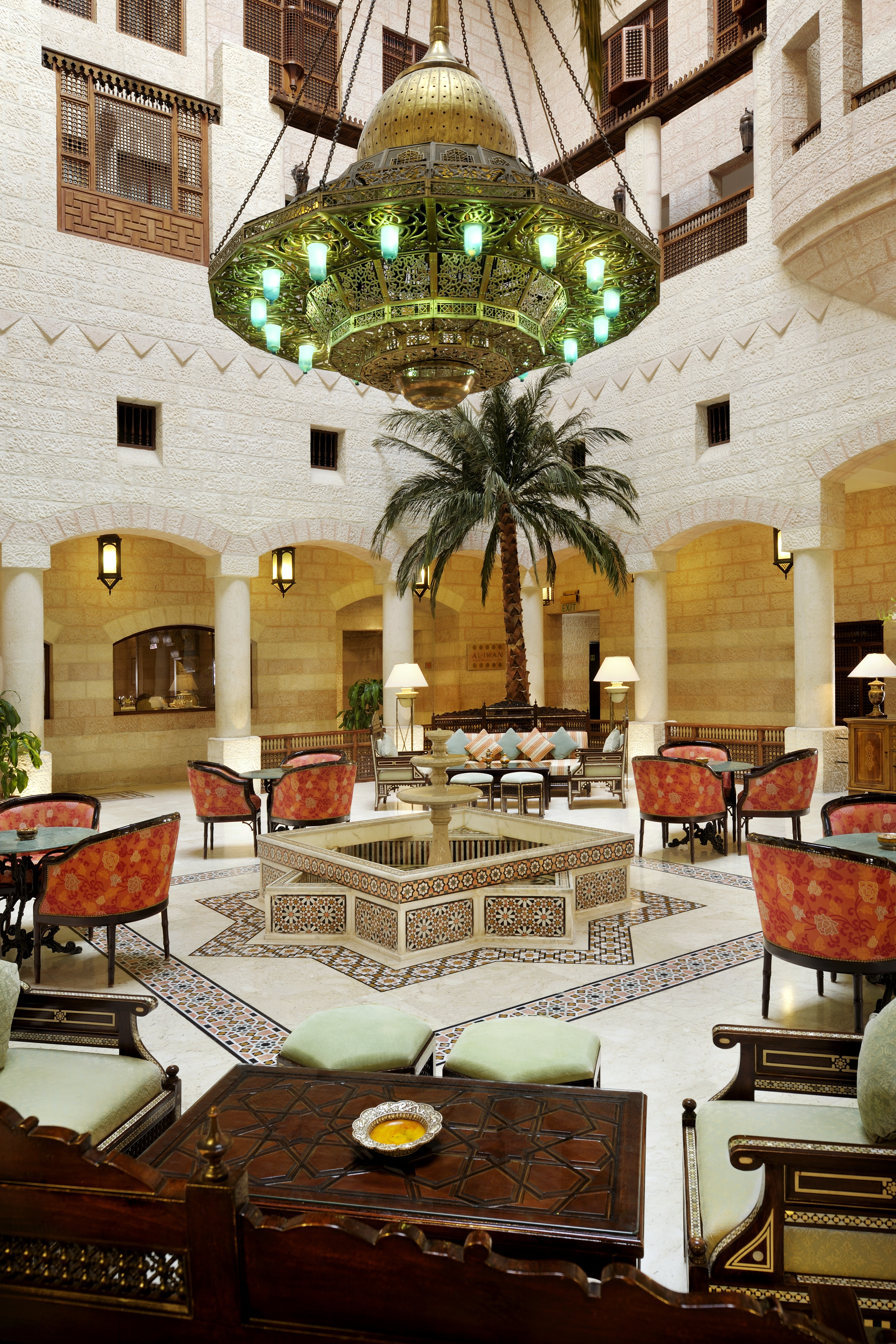 Movenpick Resort Petra - Interior design